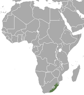 Hottentot Golden Mole (Amblysomus hottentotus) range